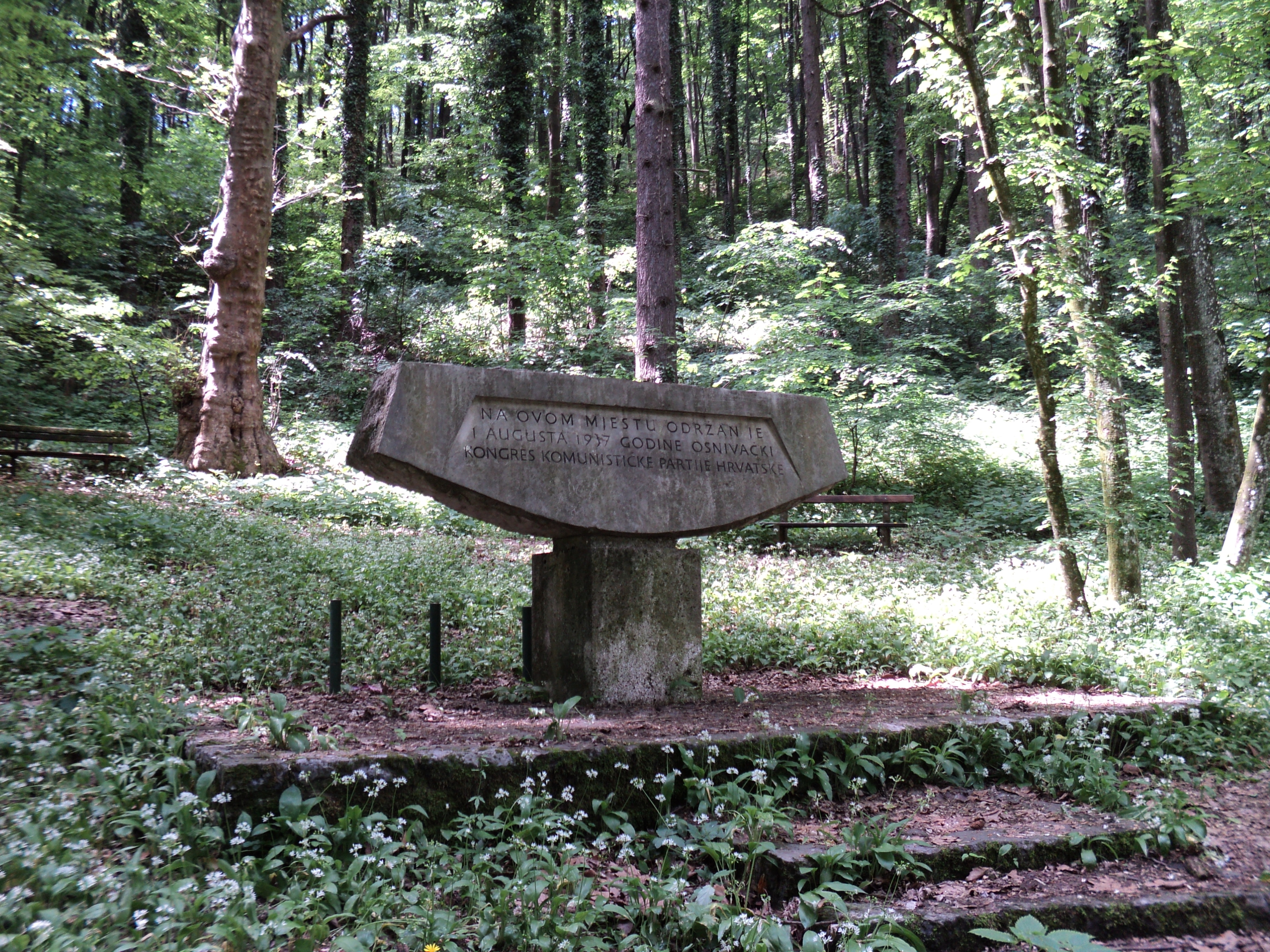 Place in Samobor where the Communist party of Croatia was established in 1937.